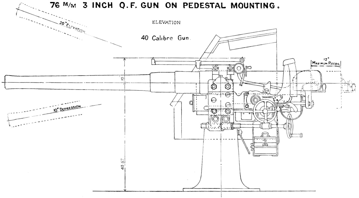 Left elevation of QF 12 pounder 12 cwt gun on pedestal mounting. "Bar and drum" sight is fitted.